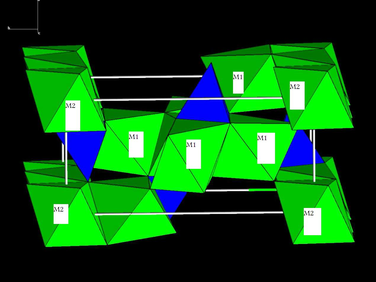 FSA Annual Report FY05